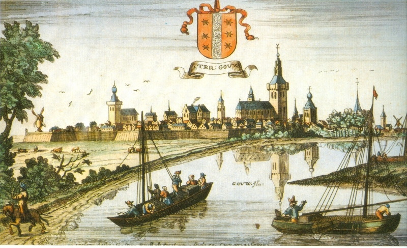 View on the Dutch city of Gouda (Ter Gouw) in 1674